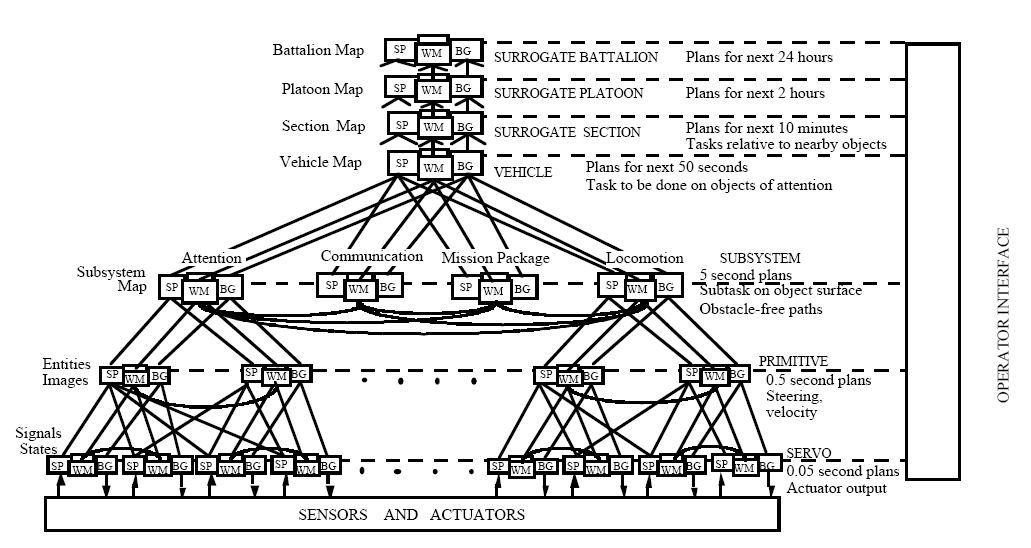 4D/RCS reference model architecture for an individual vehicle. Processing nodes are organized such that the BG modules form a command tree. Information in the KD is shared between WM modules in nodes above, below, and at the same level within the same subtree. KD modules are not shown in this figure. On the right, are examples of the functional characteristics of the BG modules at each level. On the left, are examples of the data types and maps maintained by the WM in the KD knowledge database at each level. Sensory data paths flowing up the hierarchy typically form a graph, not a tree. VJ modules are hidden behind WM modules. An operator interface provides input to, and output from, modules in every node. A control loop may be closed at every node.